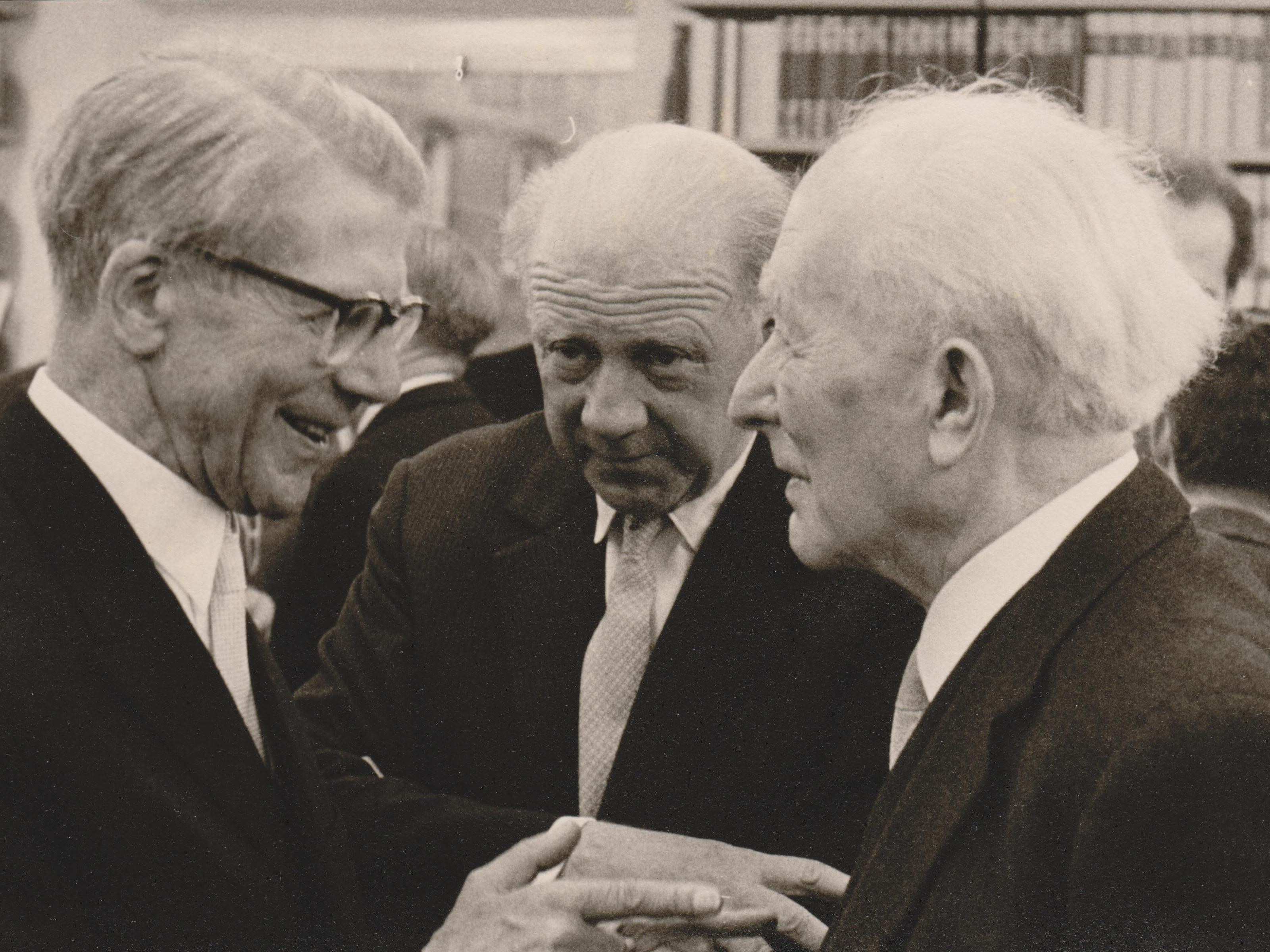 Friedrich Hund, Werner Heisenberg and Max Born, February 1966 at Göttingen.